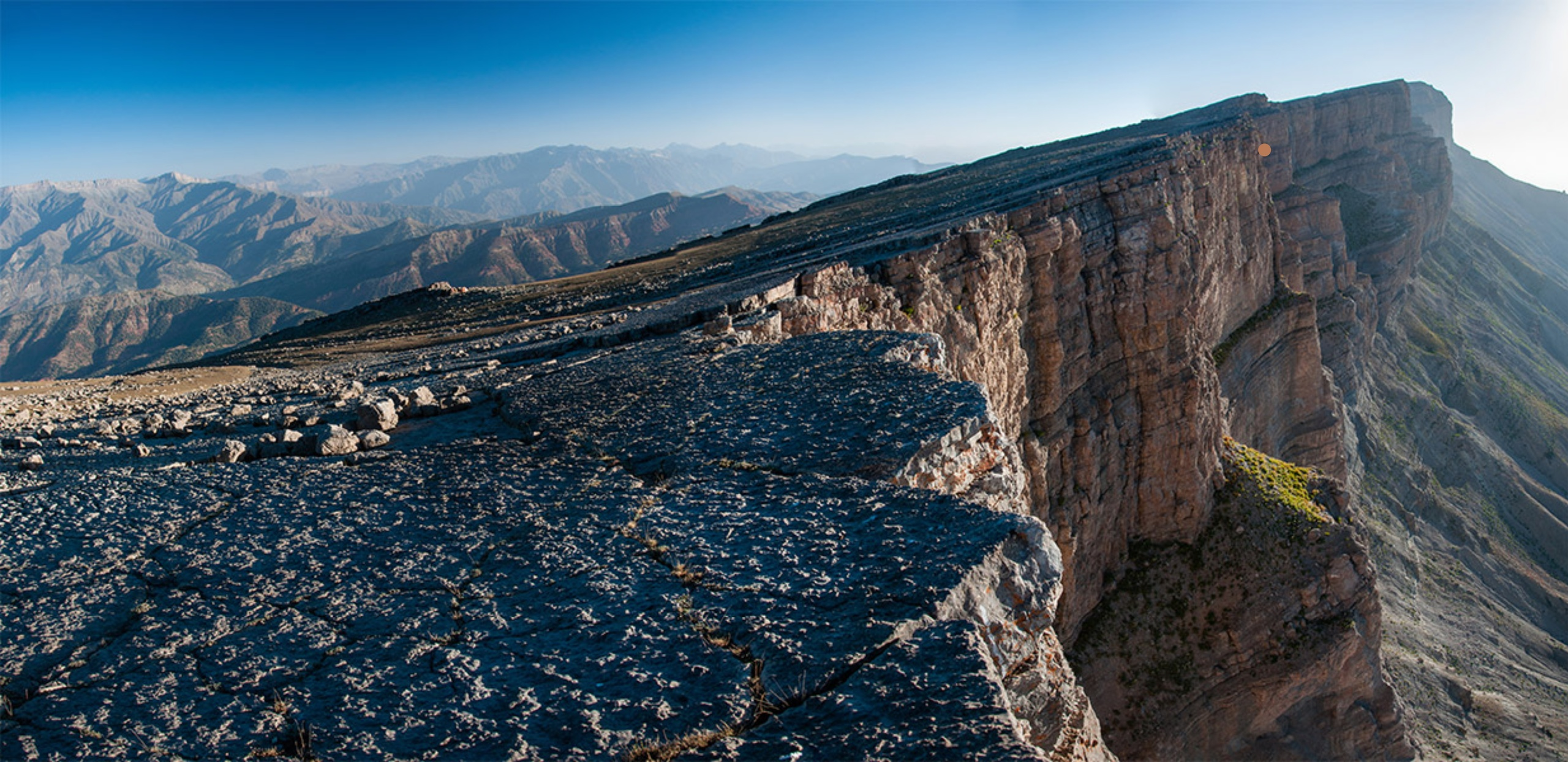 Early morning view from the south, of the Chul-Bair ridge in the Surkhandarya region, Uzbekistan, where the entrance of Višnevskij cave (also spelled Vishnevsky cave) is located. It was taken in the framework of SGS (Sverdlovsk speleo section), ASU (Association of Speleologists of the Urals) speleological expedition. Cave entrance in the cliff is marked by a small light-brown colored dot, top right in the photo. Entrance elevation is 3522 m a.s.l., the cave is 1131 m deep and its length is 8004 m (as of 2019).